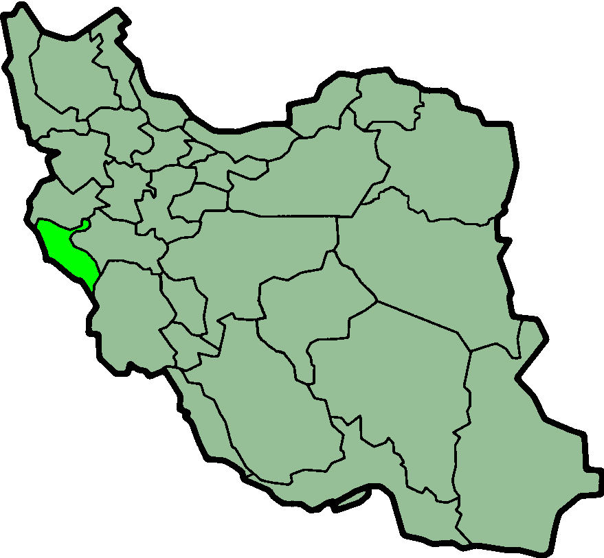 Province of Ilam, Iran